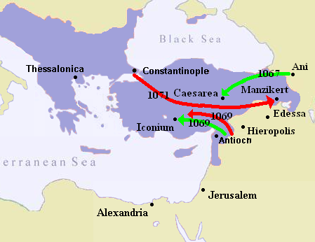 A map showing Byzantine territory (purple), Byzantine offensives (red) and Turkish offensives (green).